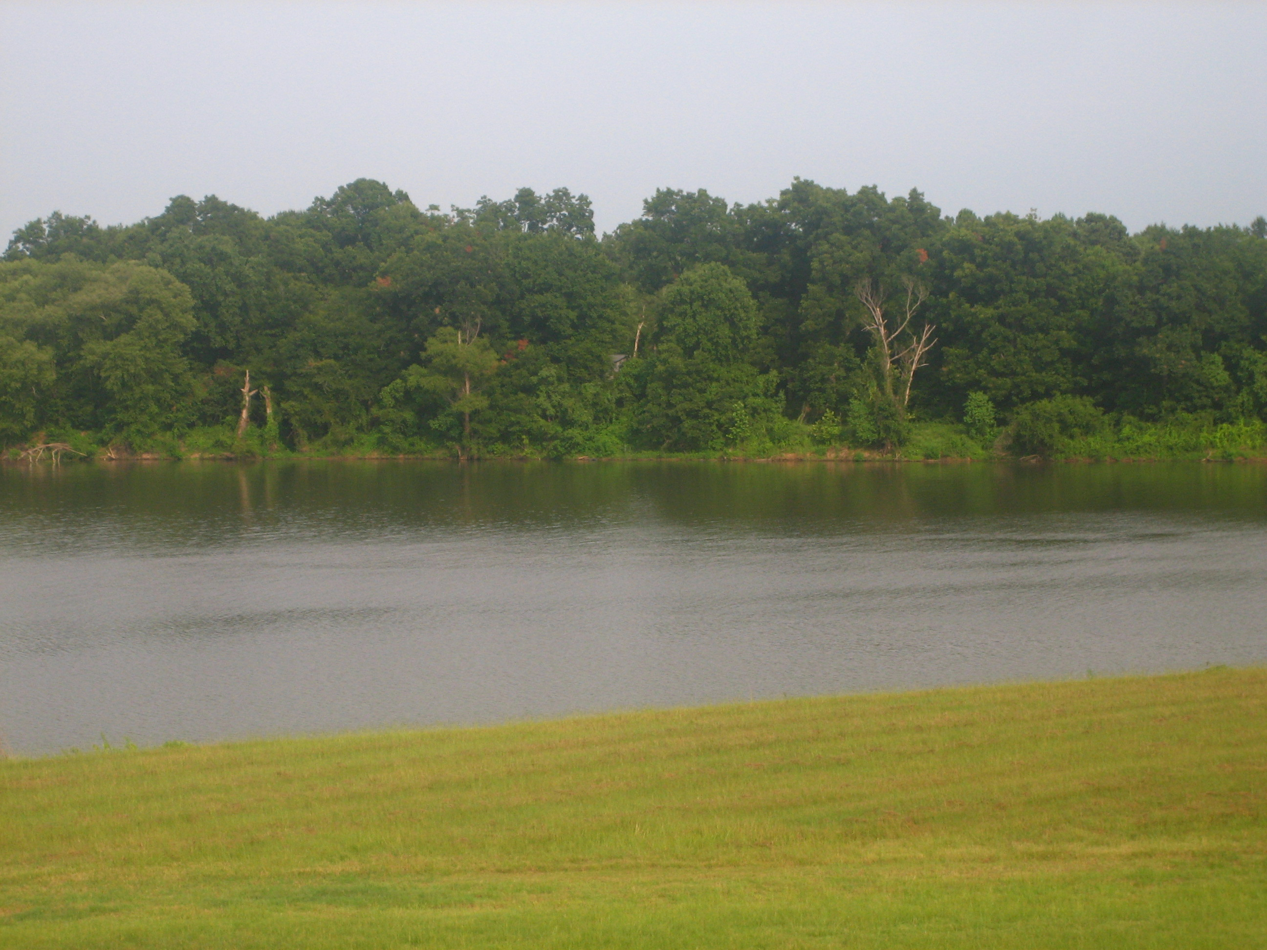 I took photo on Aug. 1, 2008.Billy Hathorn (talk) 04:09, 20 August 2008 (UTC)